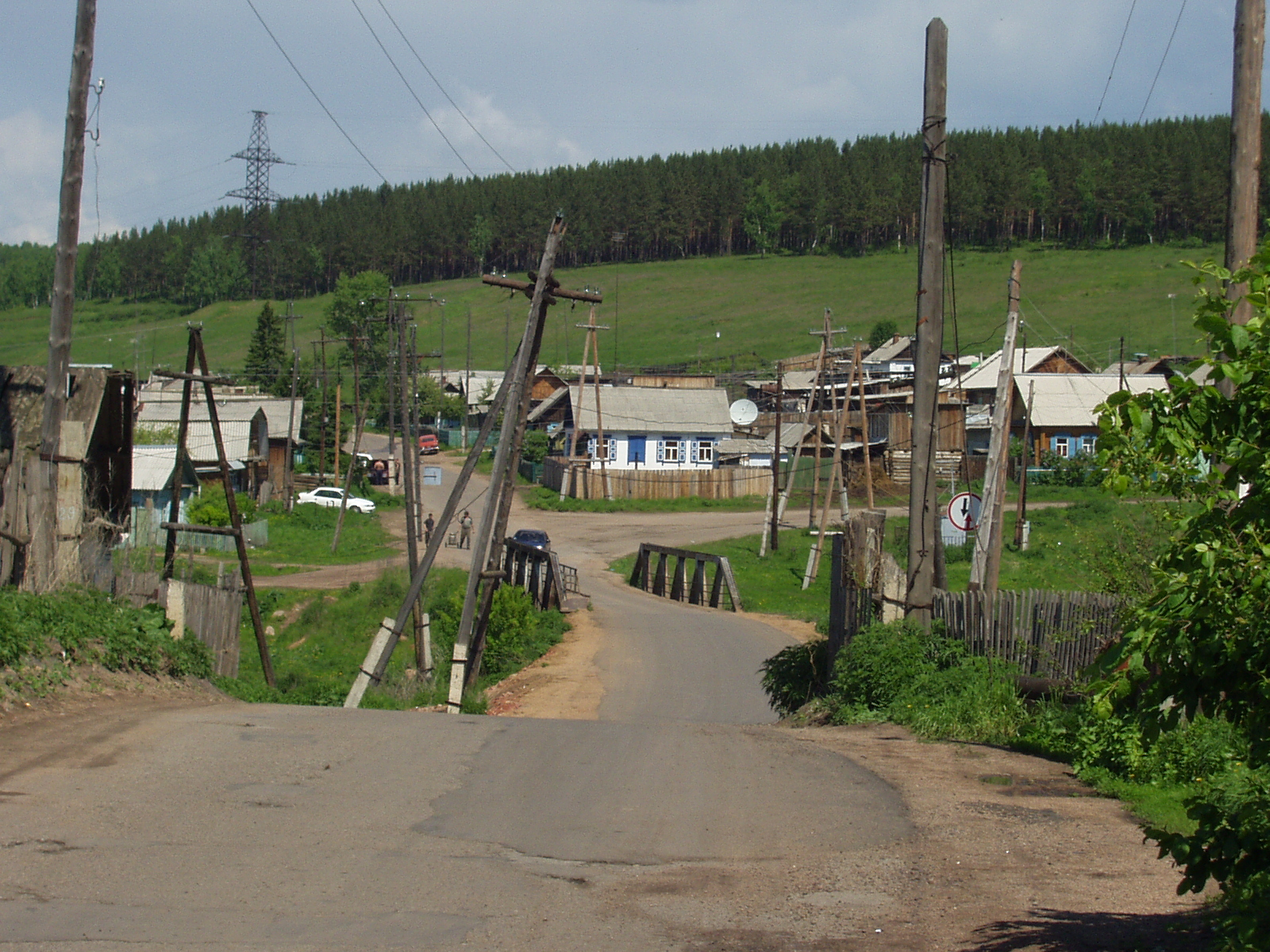 The bridge over Barga in Zaozyorny. A man with a flagon on a truck, commonly used in the old part of the town to carry water from water coloumns, can be seen beyond the bridge.